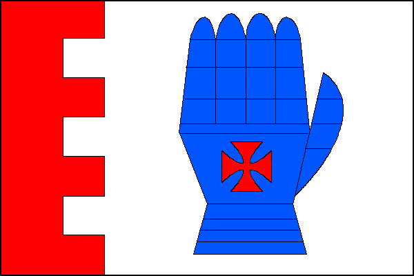 Municipal flag of Velenice village, Česká Lípa District, Czech Republic.